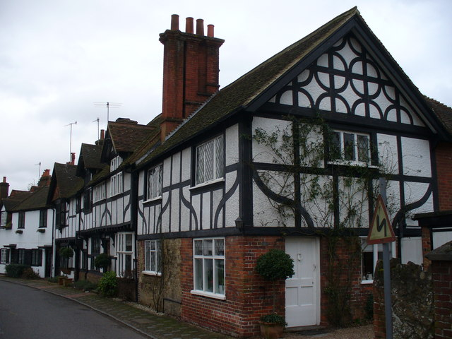 Wonersh, The Street Medieval black and white half-timbered cottages line the village street.